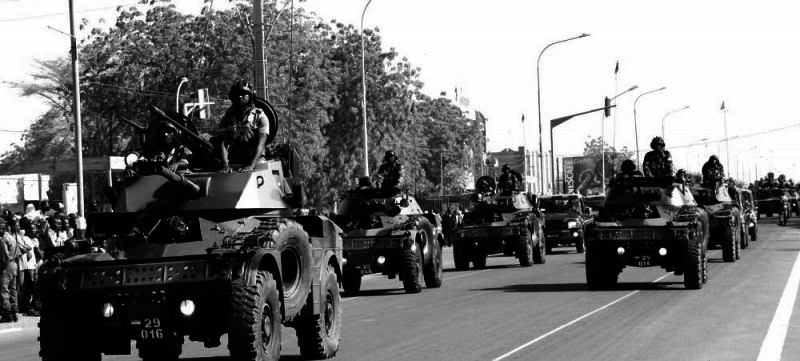 A motorized company of the Niger Army during a parade in Niamey